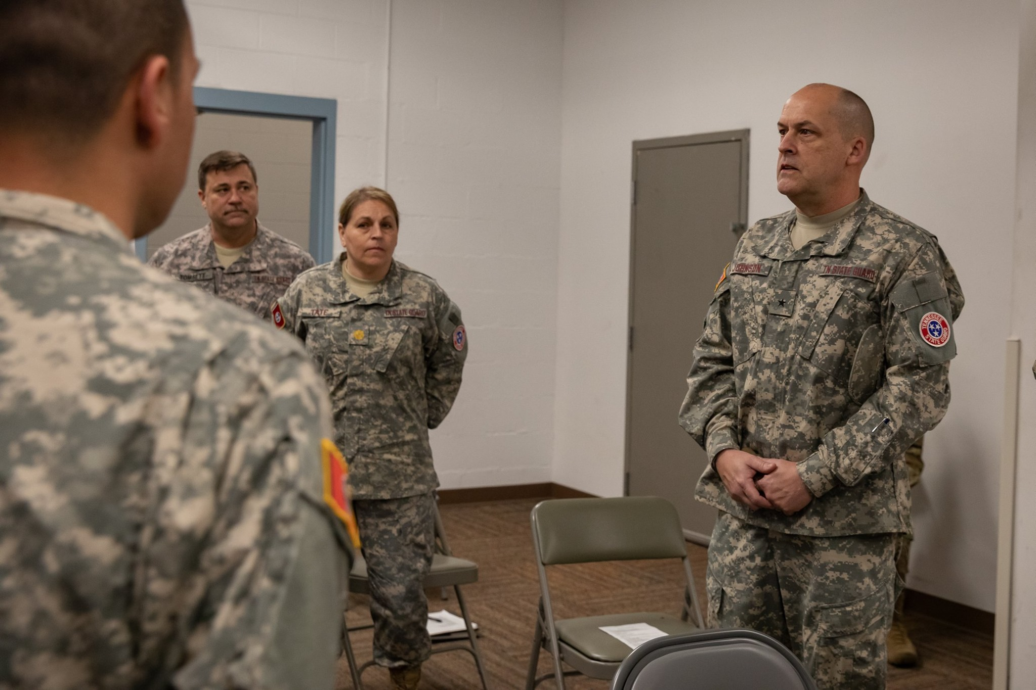 Approximately 21 Tennessee State Guard members from across the state volunteered to provide medical support for the fight against #COVID19. These members will undergo in-processing and training at the Volunteer Training Site-Smyrna prior to aiding the Tennessee National Guard's COVID-19 medical task force. The Tennessee State Guard is an all-volunteer state organization and a component of the Tennessee Military Department. (Photos by: U.S. Army Sgt. Sarah Kirby)